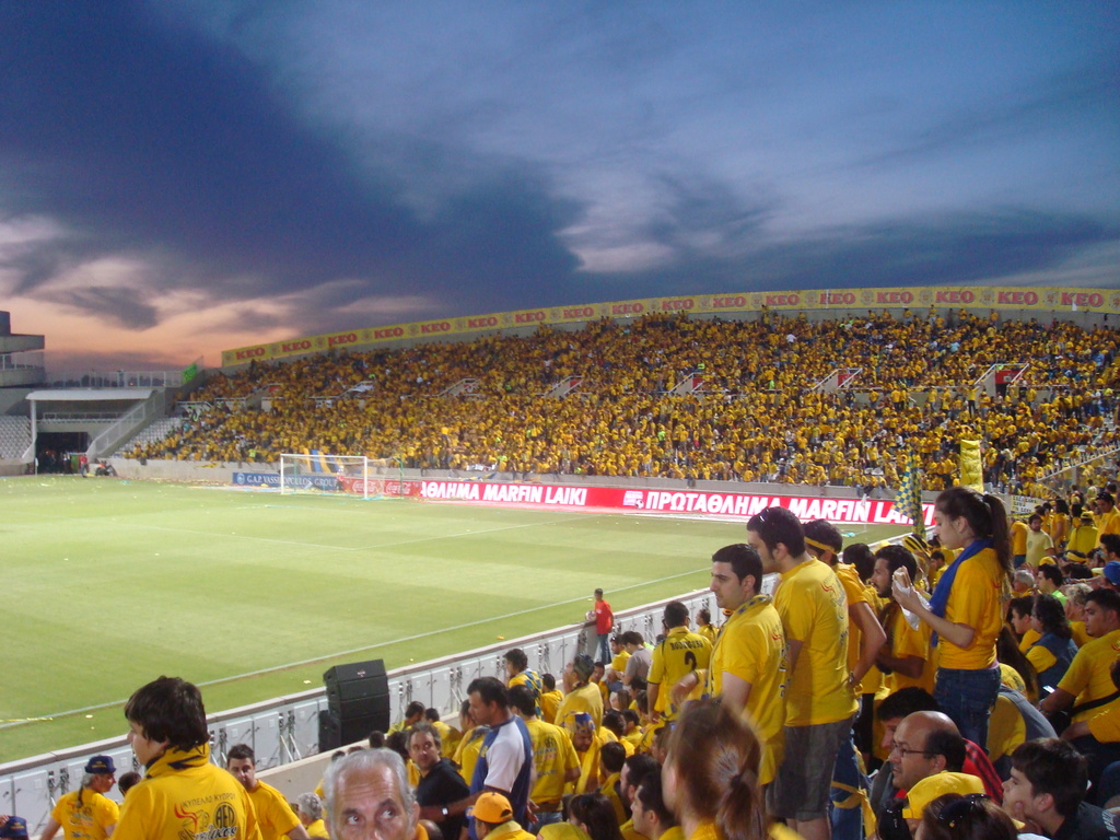 This file is a picture that has been taken of a final